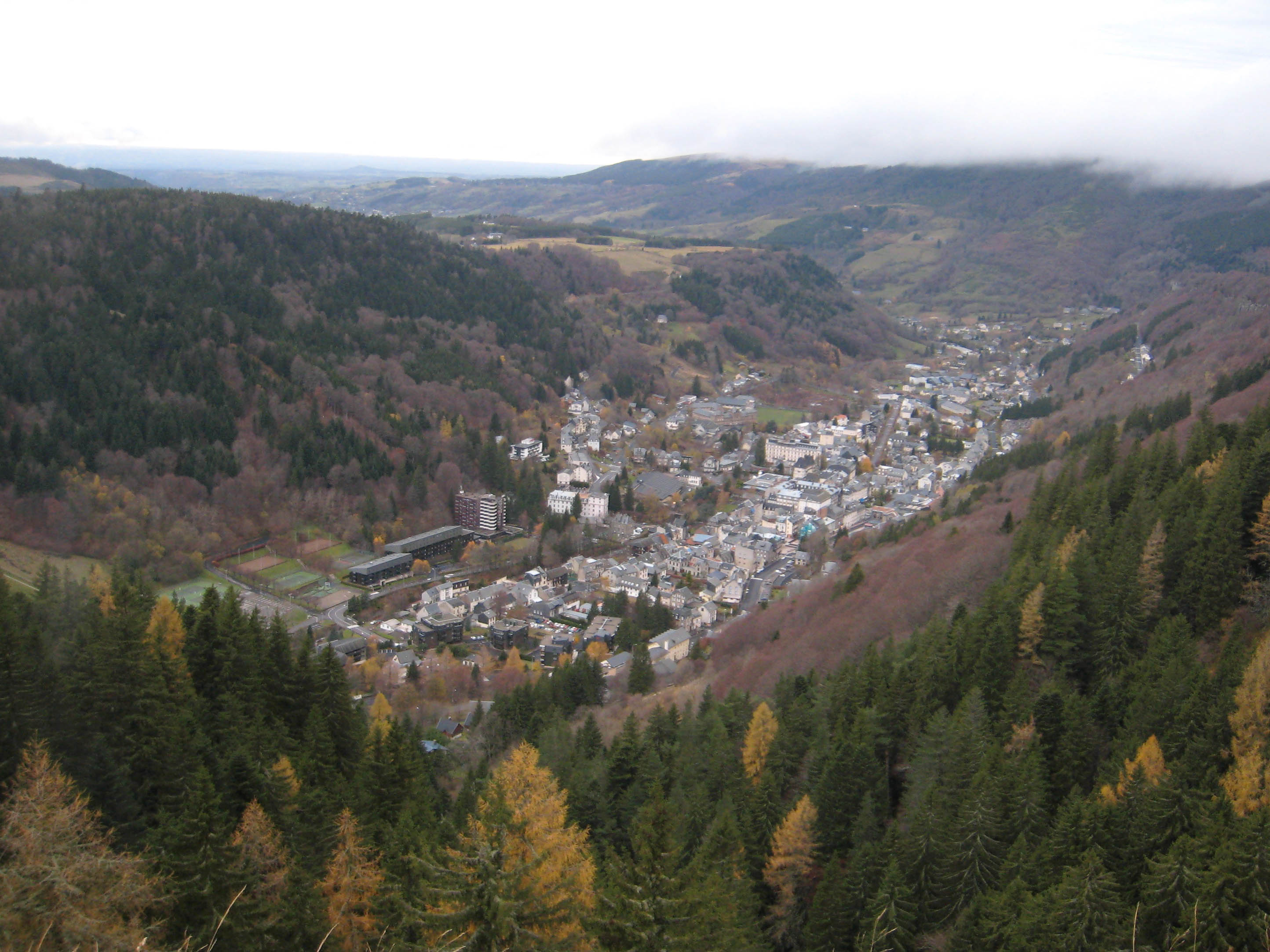 Mont-Dore from above the Grande Cascade (a waterfall to one side of the town)